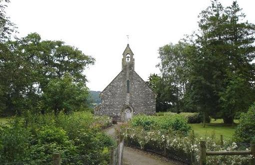 Historic Rug Chapel near Clwadd Poncen